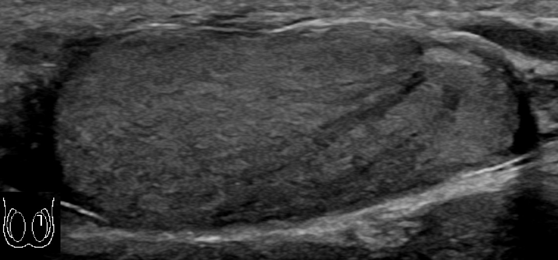 Scrotal ultrasound of fibrotic testicular striations in an 85 year old man. The testicle is also hypovolemic, with a volume of about 8 cm³.